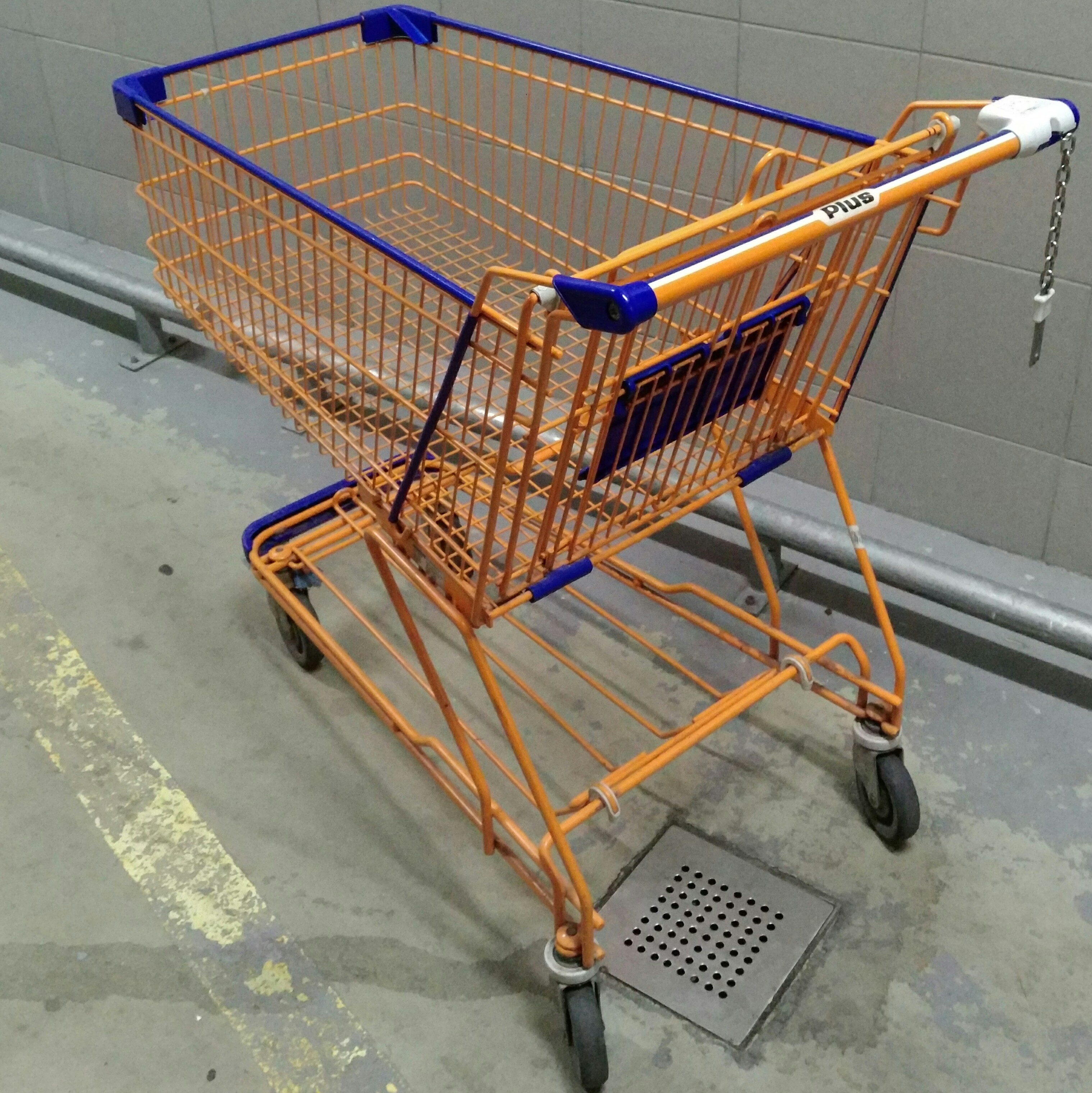 Shopping cart from Plus Market